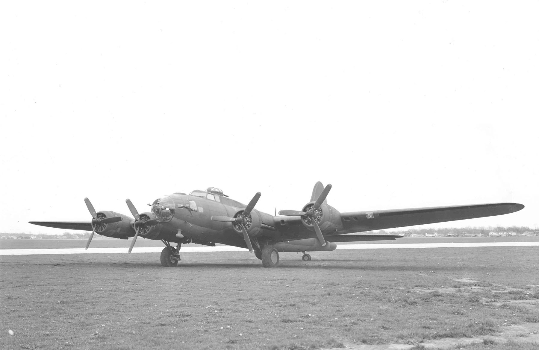 Boeing B-17F, left front quarter view.